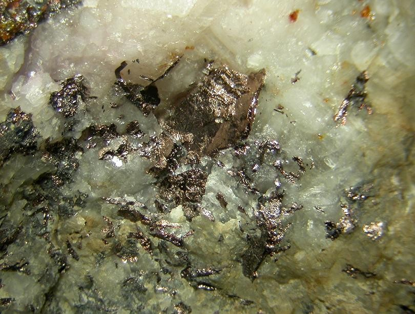 Breithauptite Locality: Samson Mine, St Andreasberg, St Andreasberg District, Harz Mts, Lower Saxony, Germany (Locality at ) Breithauptite on Calcite. Field of view 17mm. Specimen and photo Leon Hupperichs.